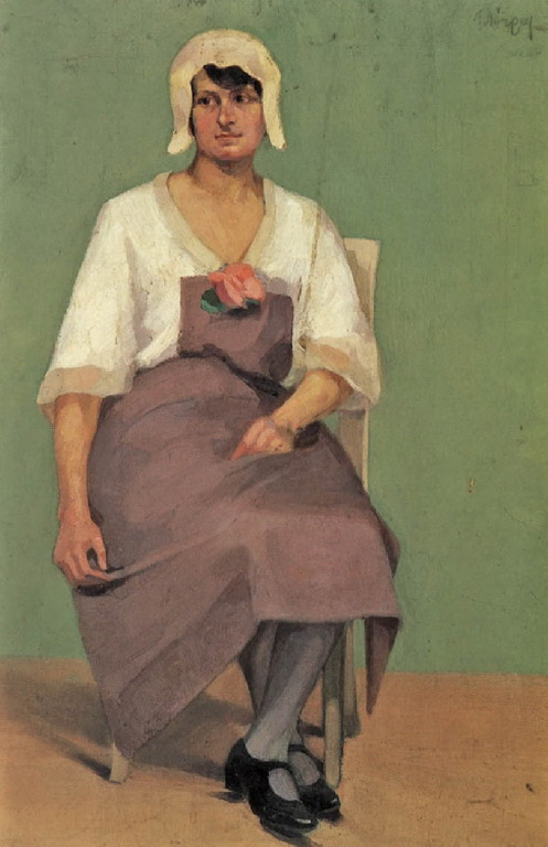 Sitting girl